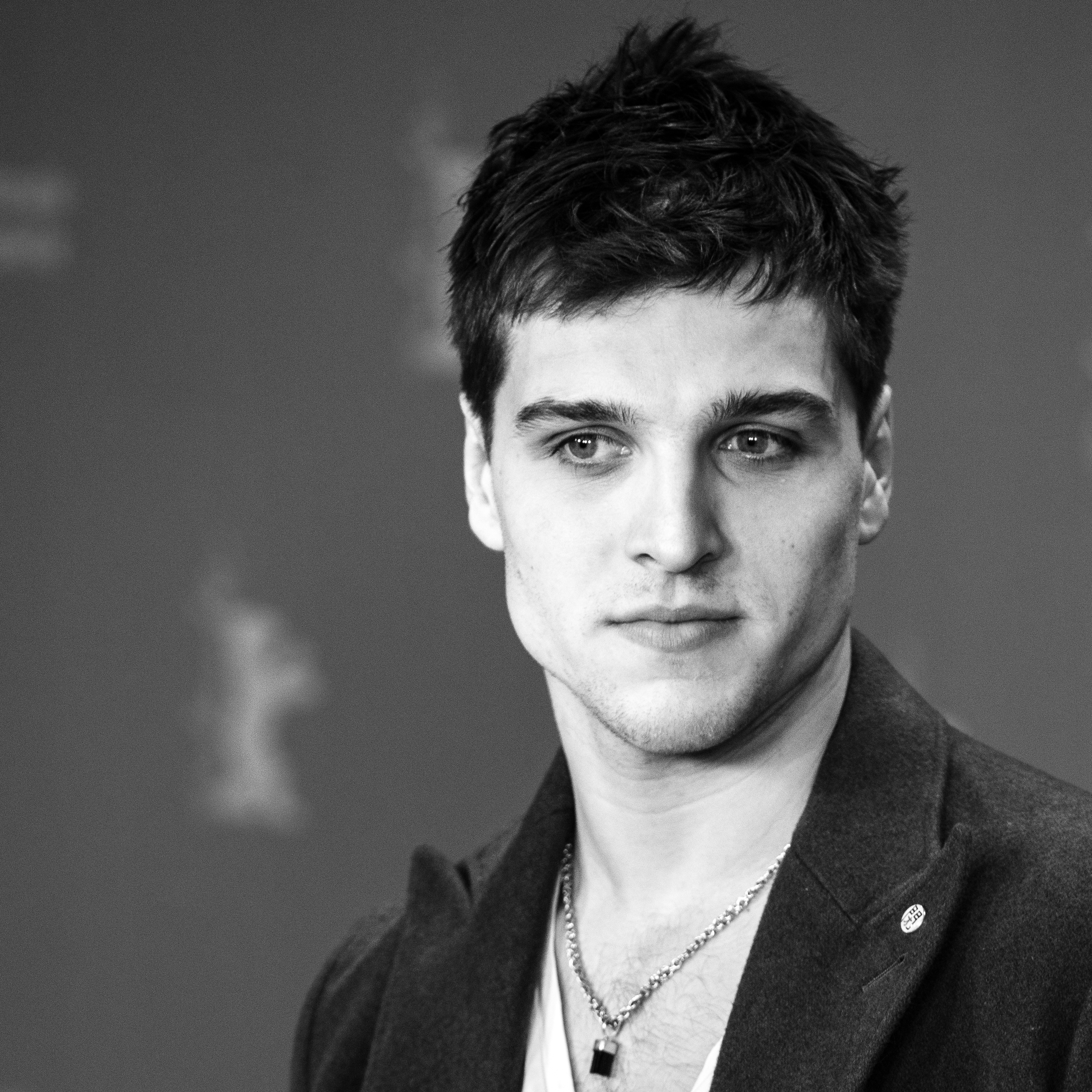 The actor Jonas Dassler at the screening of the film Der Goldende Handschuh at the Berlinale 2019